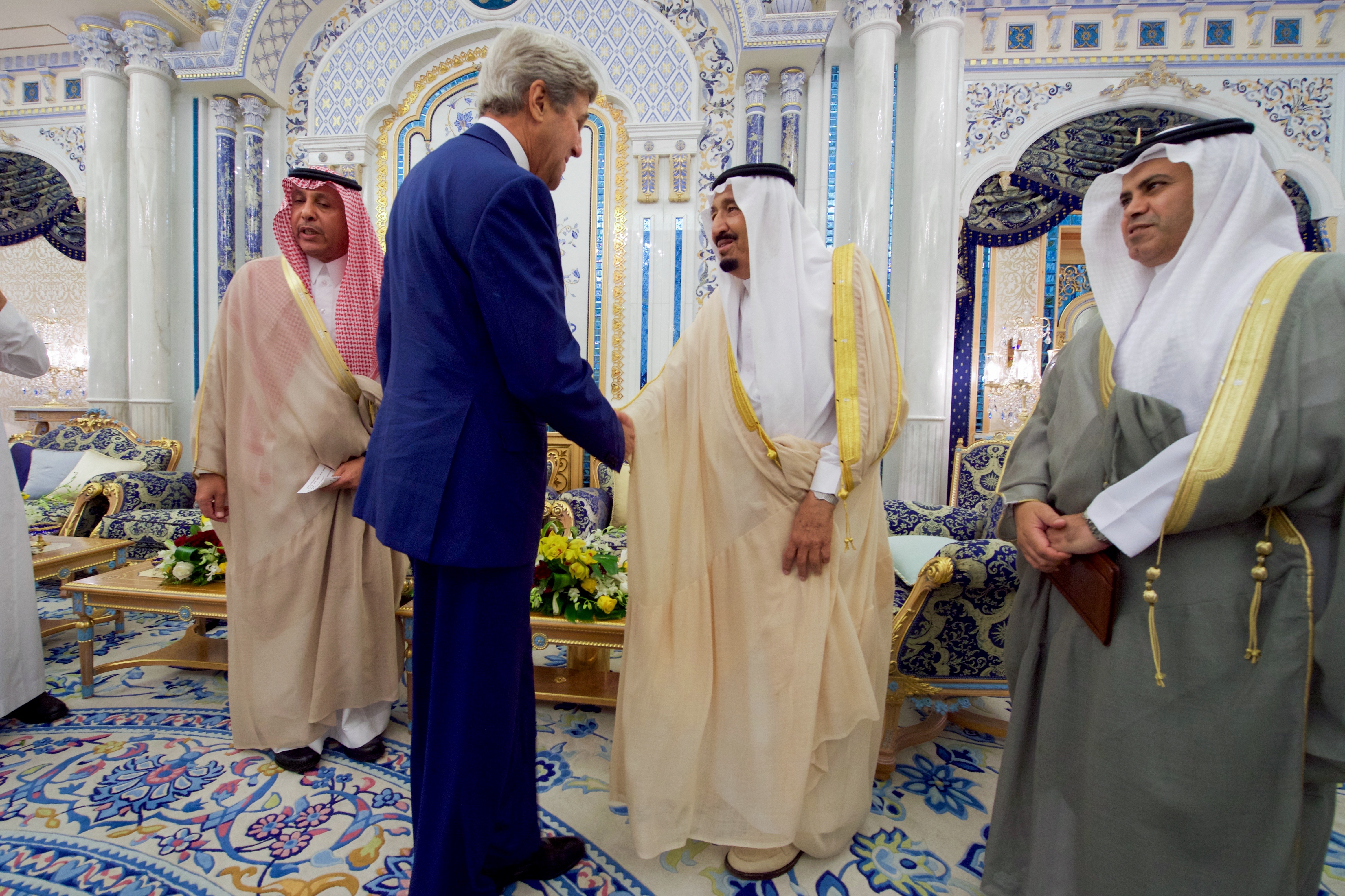 U.S. Secretary of State John Kerry shakes hands with King Salman of Saudi Arabia on August 25, 2016, after arriving at the Royal Court in Jeddah, Saudi Arabia, for a bilateral meeting preceding discussions with regional ministers focused on Yemen and other Persian Gulf issues. [State Department photo/ Public Domain]